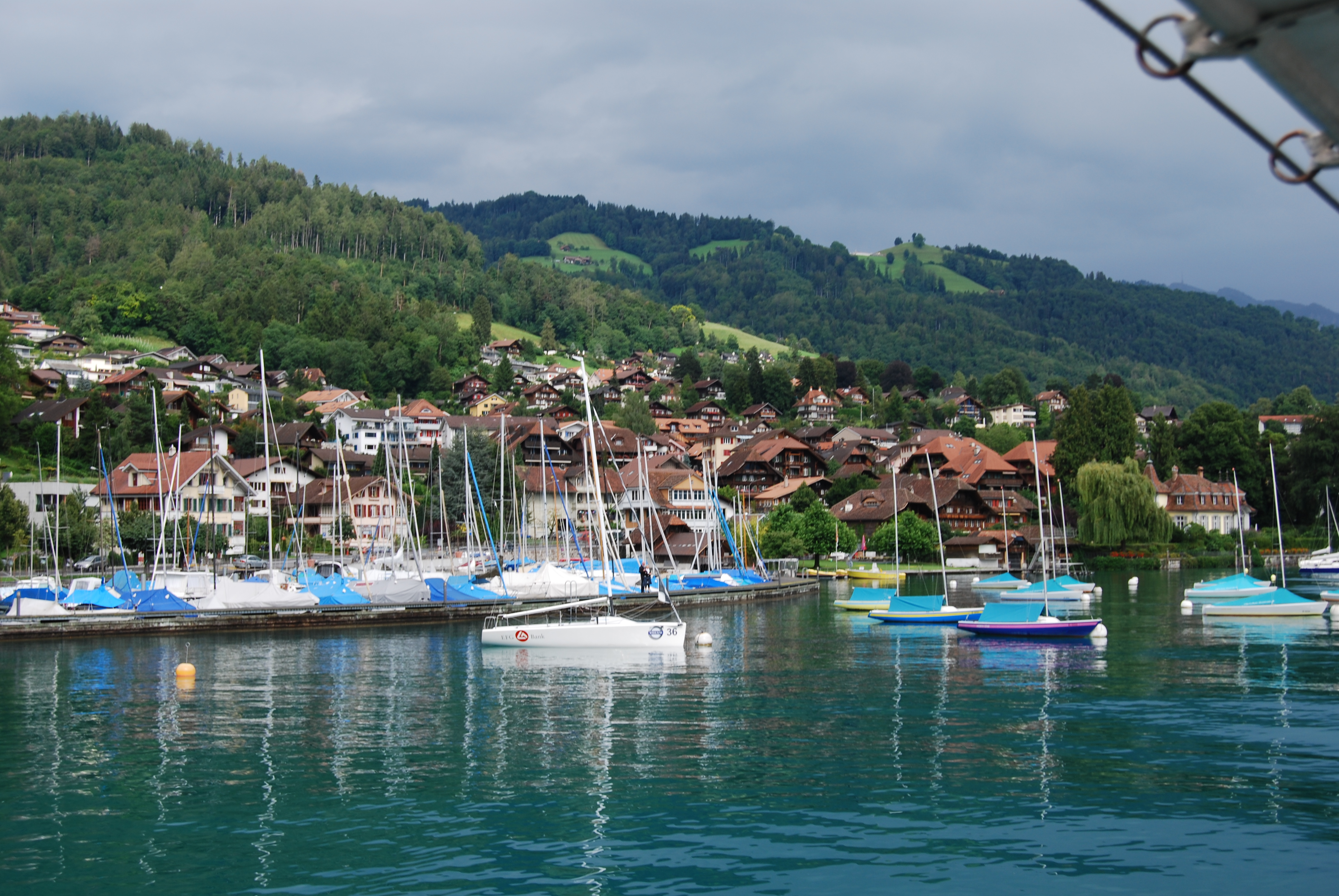 Hilterfingen, canton of Bern, SwitzerlandEsperanto: Hilterfingen, Kantono Berno, Svislando